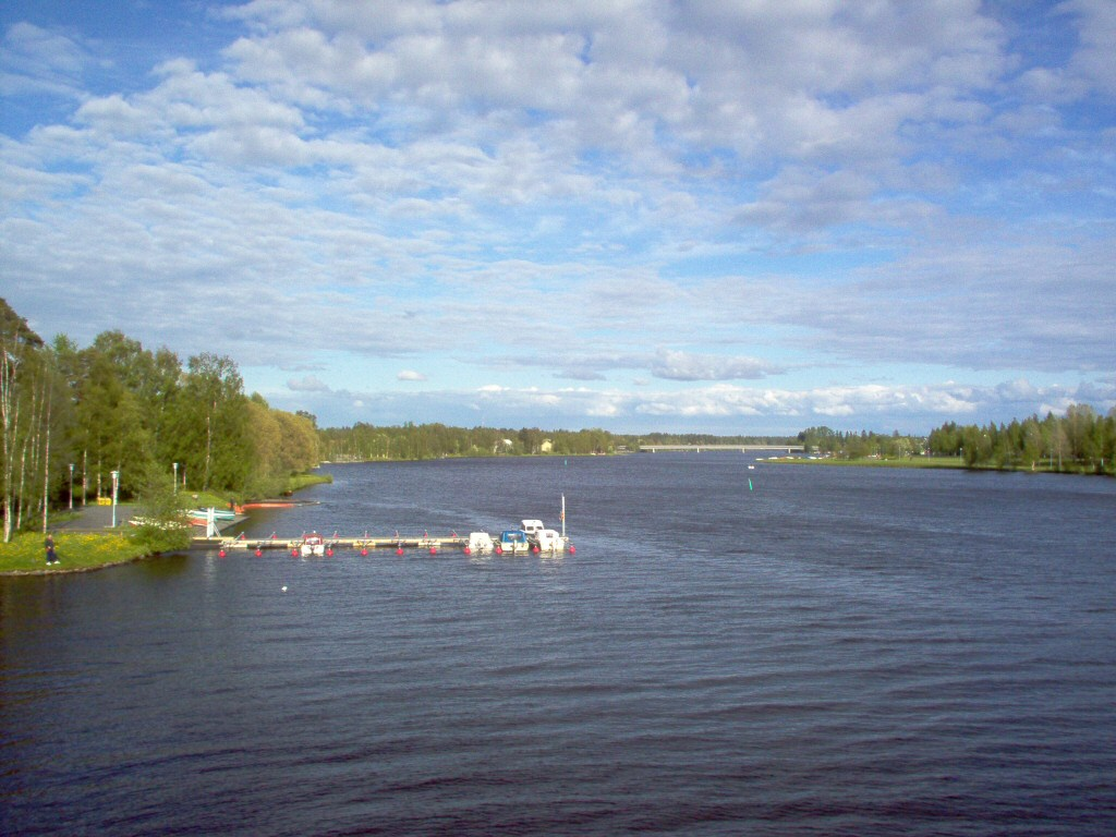 Oulujoki (Oulu River) seen from the E75 highway bridge in Laanila district, Oulu, with Erkkolansilta (Erkkola bridge) on the background. Laanila district on left (north) bank, Värttö district on right (south) bank.